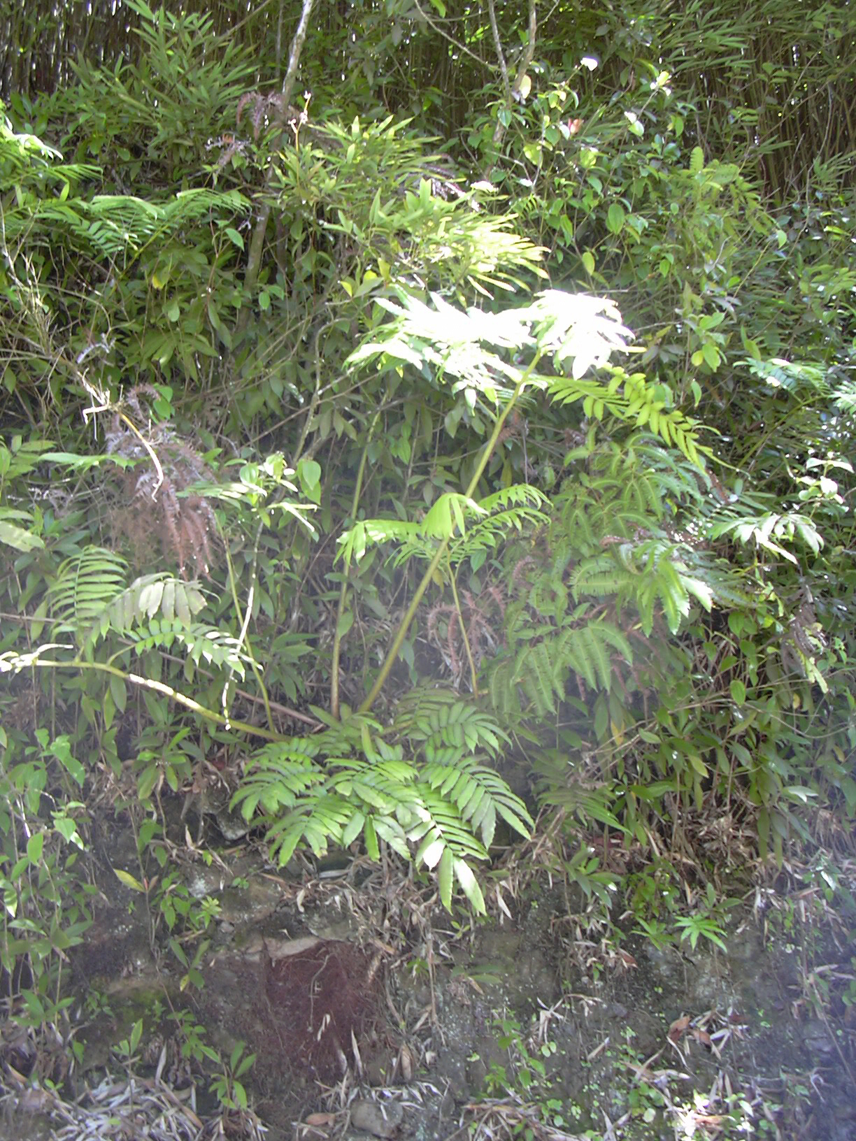 Angiopteris evecta (habit). Location: Maui, Hana Hwy